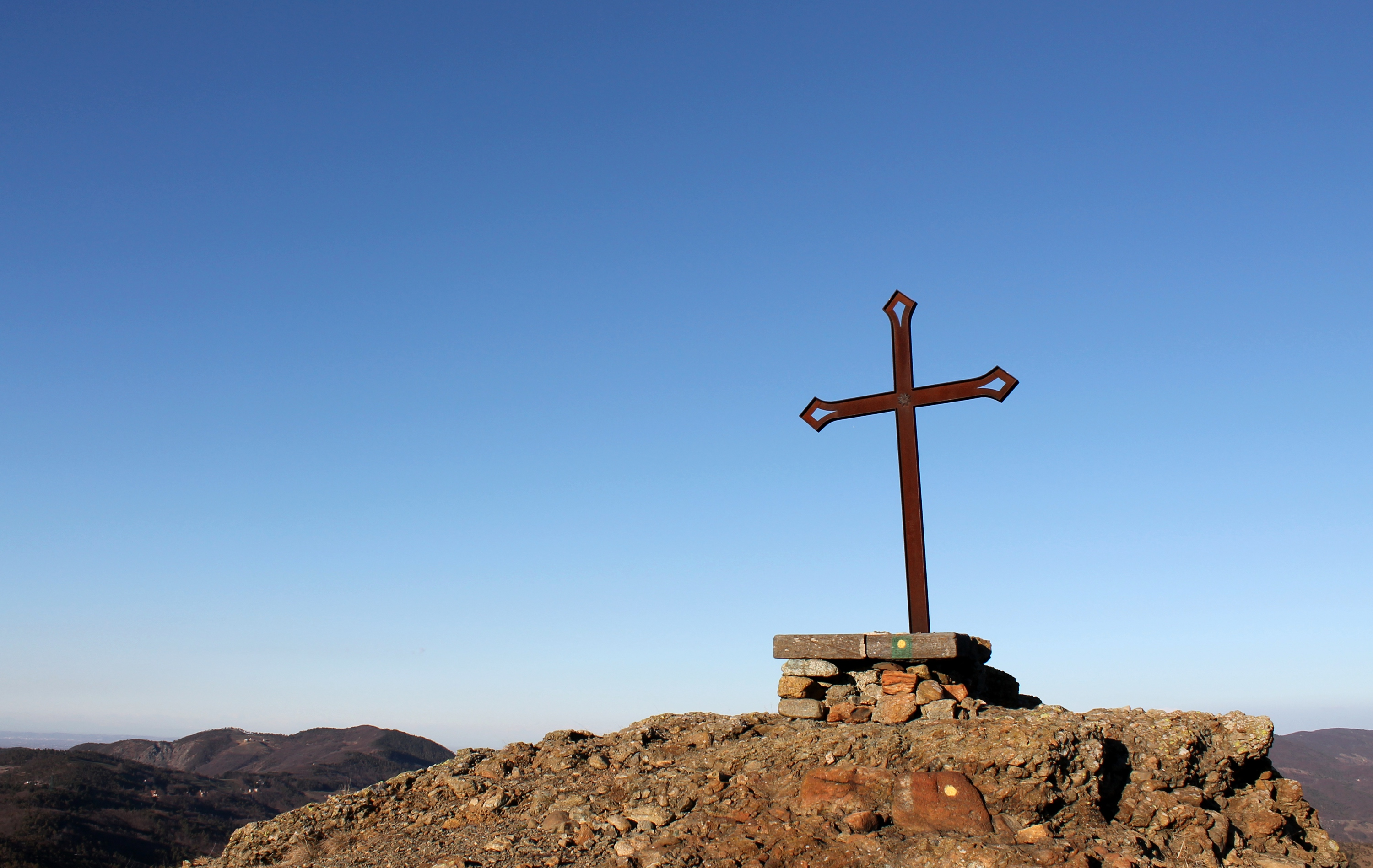 Cross atop Montecalvo, Tiglieto, Genova, Italy